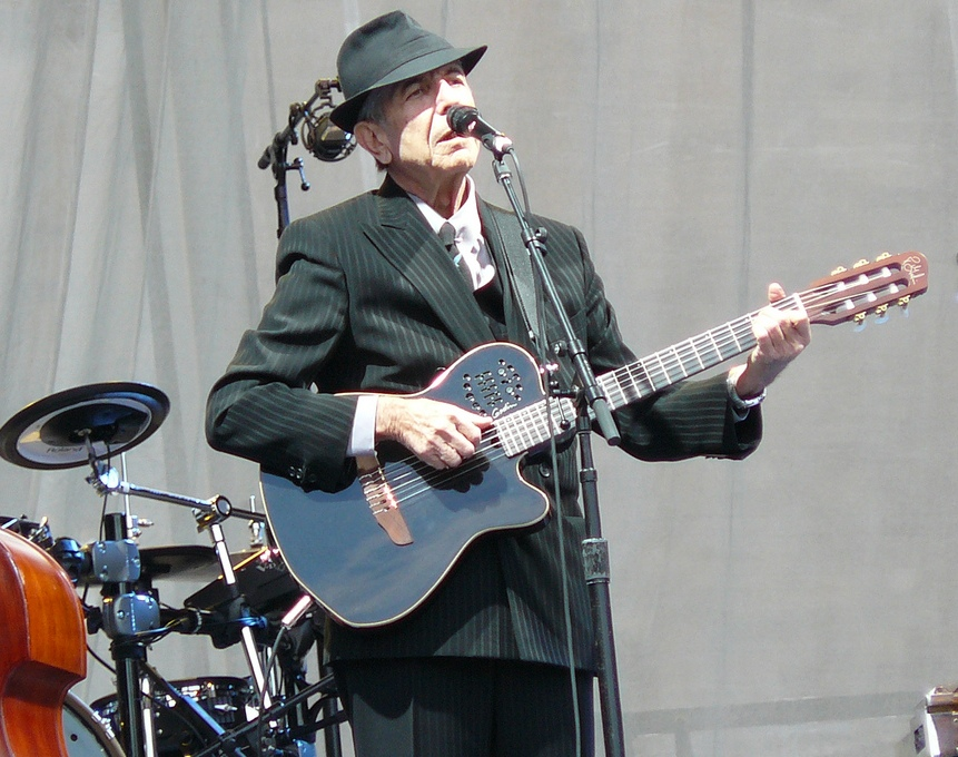 Leonard Cohen, Edinburgh, 16.07.2008